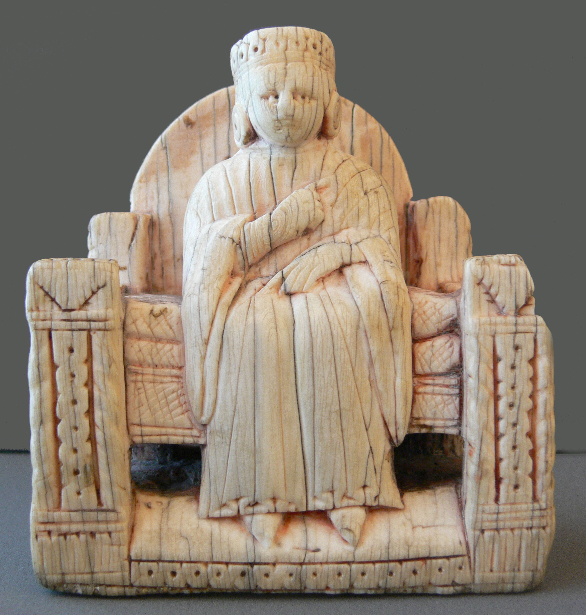 Chess Figure (from a display with chess figures from Italy, Central Europe and Northern Europa, made from ivory or walrus teeth; 12th to 16th century. Skulpturensammlung, Bode-Museum Berlin.)